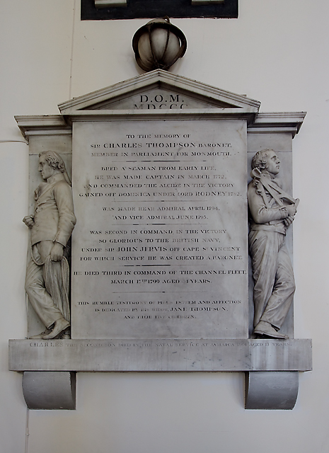 Monument to Vice Admiral Sir Charles Thompson - Holy Trinity church, Fareham